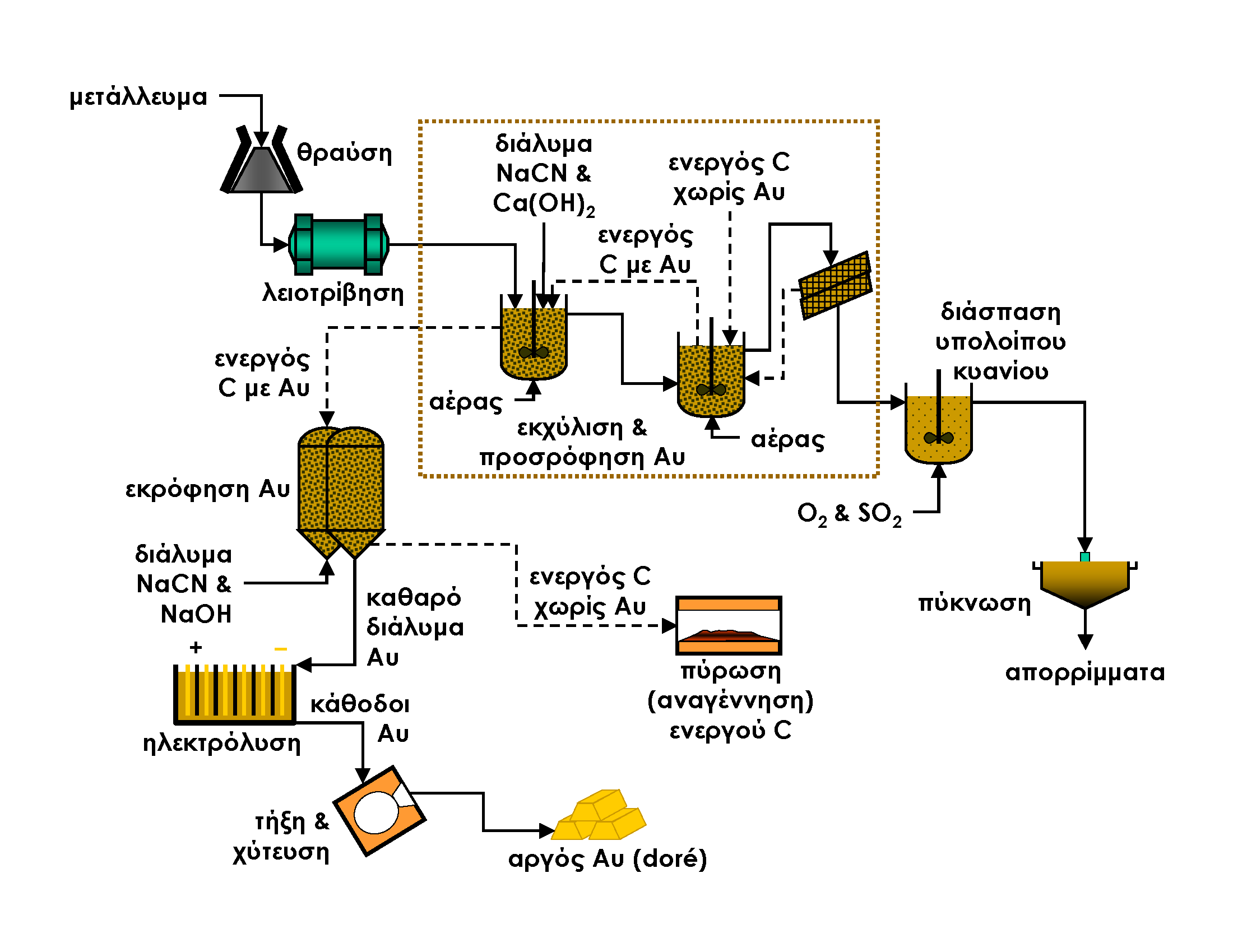 Au-cil-extraction